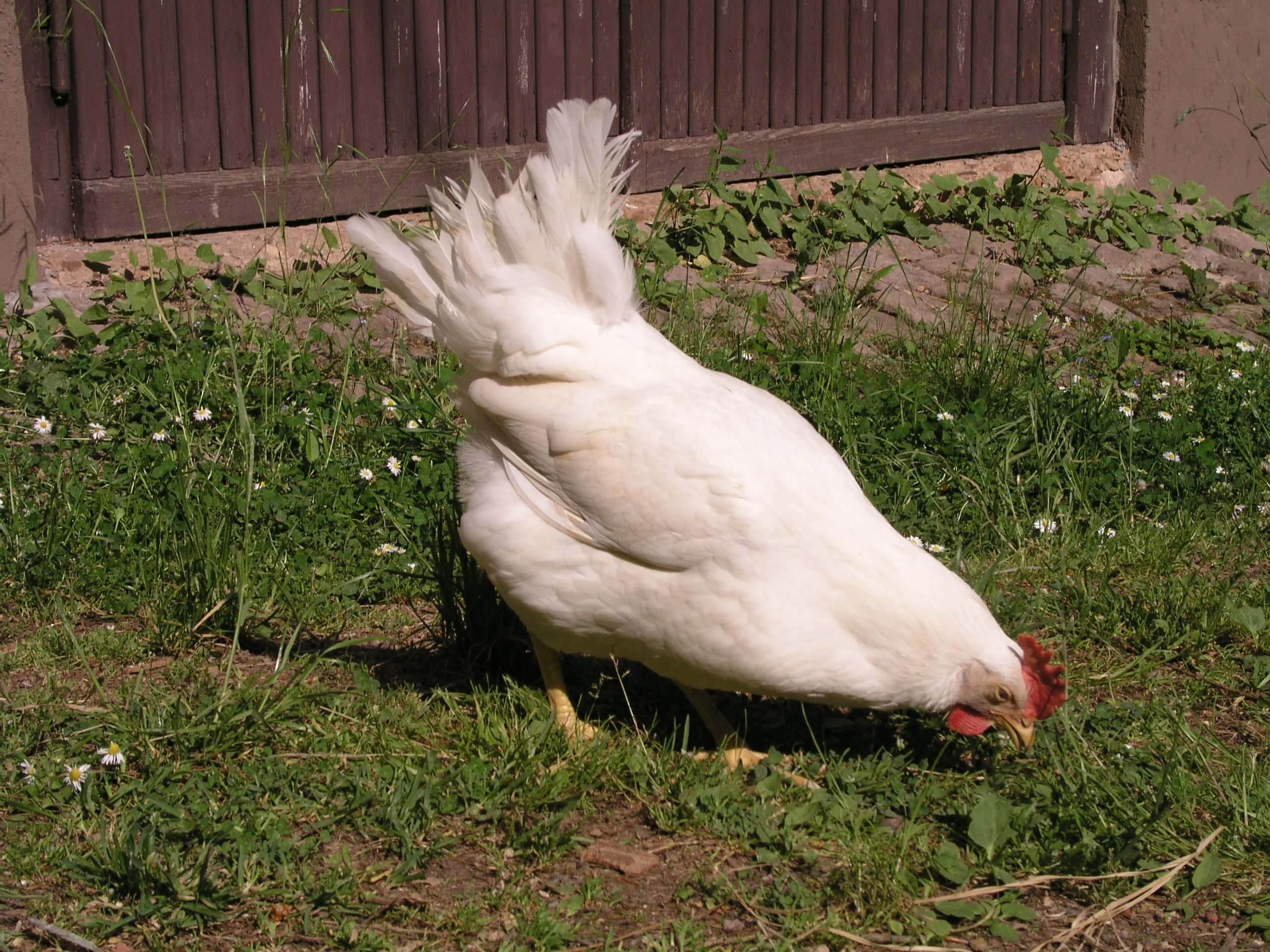 Leghorn chicken